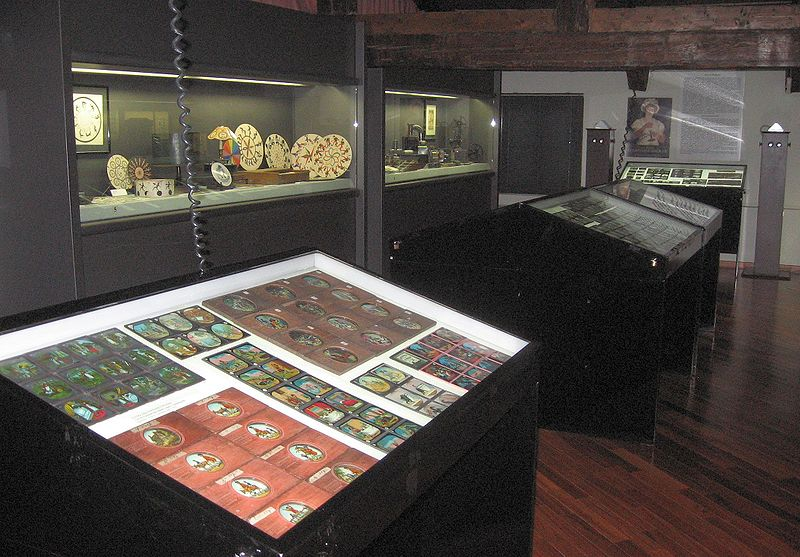 Imagen del interior del Museo